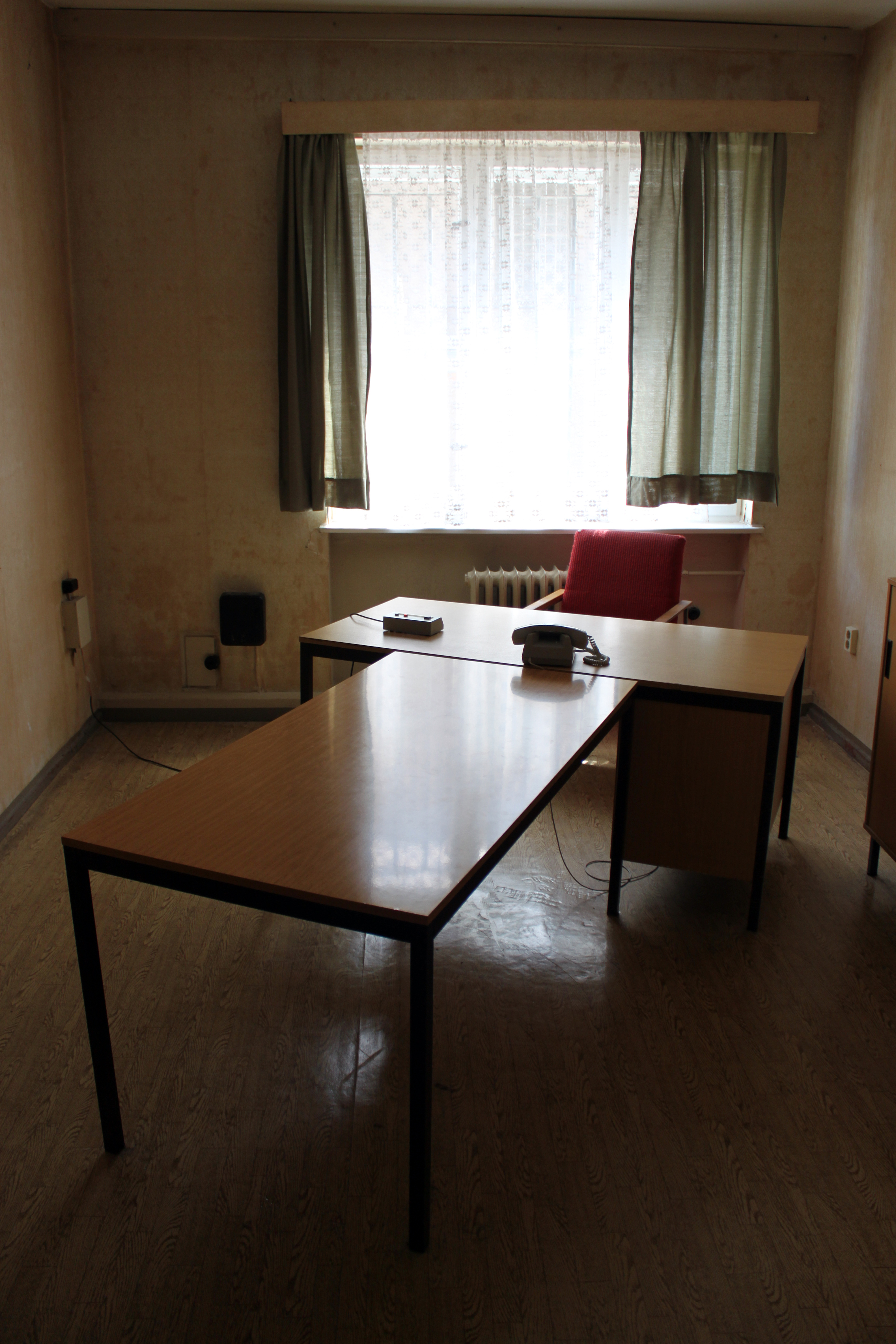 Memorial Berlin-Hohenschönhausen - Detention of the Ministry for State Security - Interrogation Room